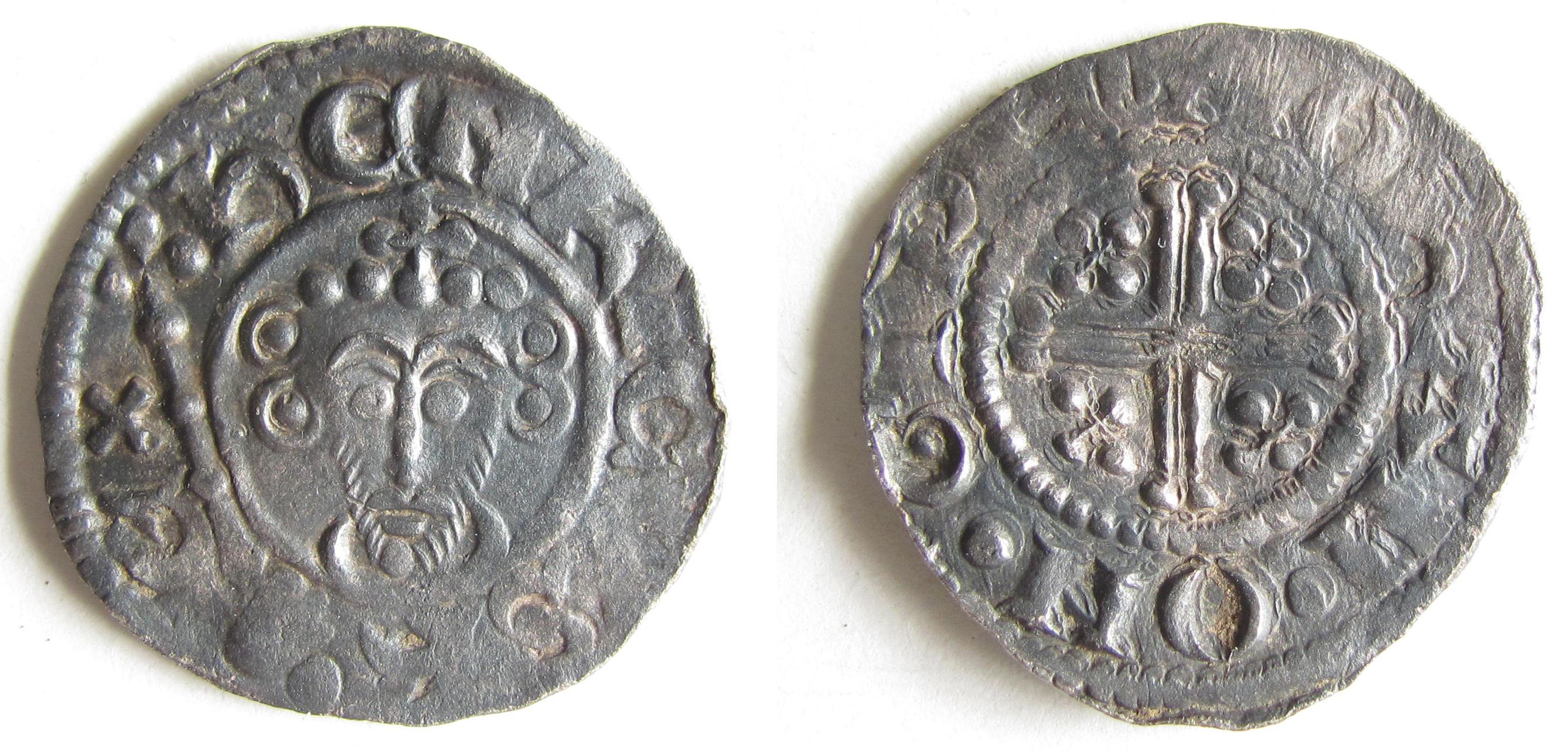 Silver penny of John, short cross class 5b, moneyer Iohan of Ipswich, weight 1.35g, 1205-7